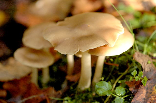 Entoloma rhodopolium from Commanster, Belgium. If you think this is a different taxon, please contact James Lindsey.